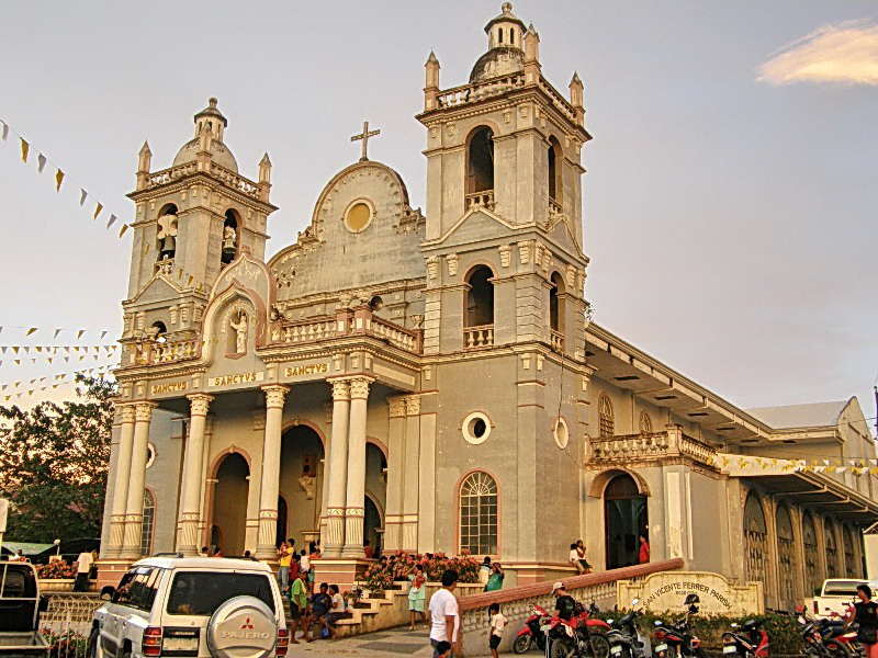 San Vicente Church, Bogo, Cebu, Philippines